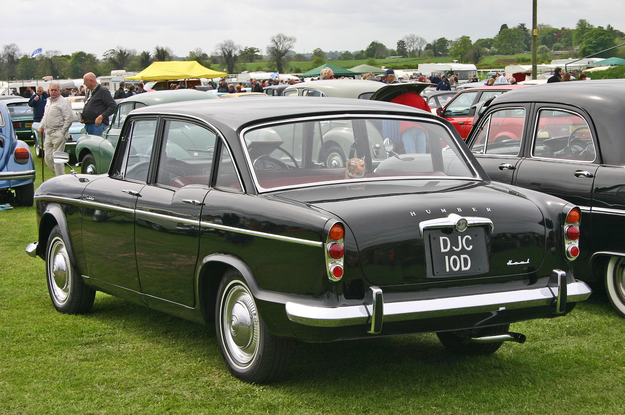 Humber Hawk Series IV (DVLA) first reg 12 October 1966, 2267 cc The final shape of the Humber Hawk, this the Series IV shows the new six-light body (shared with the Humber Super Snipe and the newly introduced Humber Imperial).